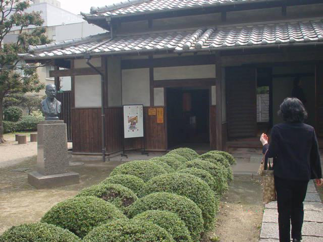 Mori Ogai's house, Kokura Kita ward, Kitakyushu Photo taken by Ian Ruxton, April 3, 2004 Original uploader: Historian